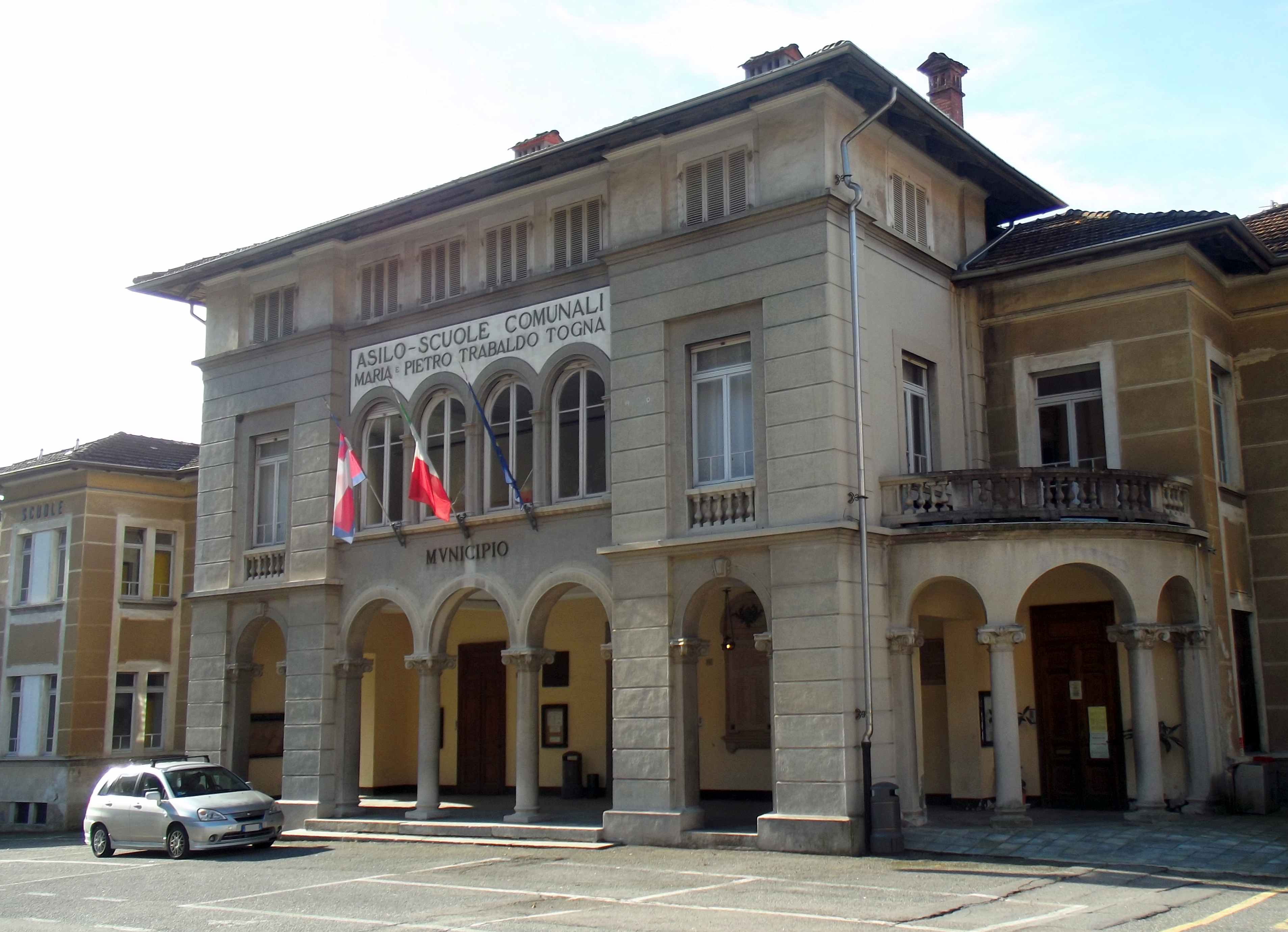 Pray (BI, Italy): town hall and school